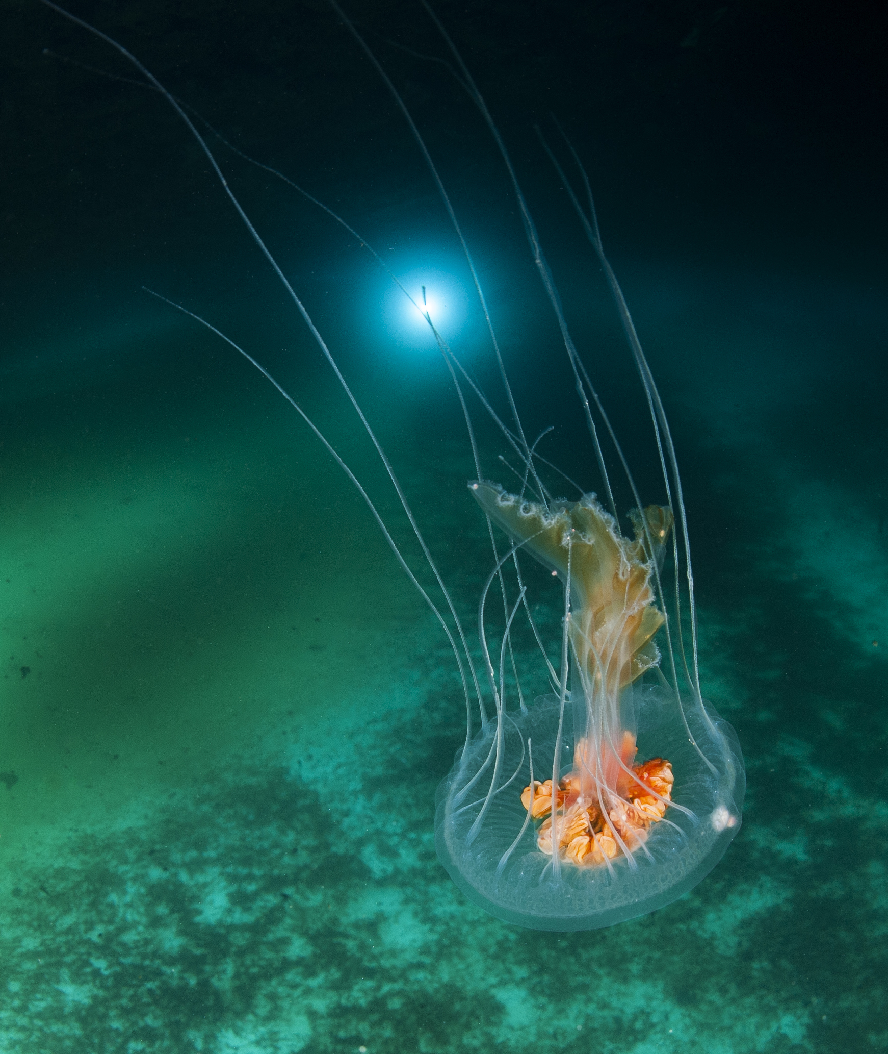 underwater antarctic biodiversity (french scientific base in Antarctica). Identified as Diplulmaris antarctica by Prof. Andre C. Morandini: “ Sometimes it is not so easy to identify animals by photographs, but in this case we can see some important features. It is a scyphozoan jellyfish of the order Semaeostomeae, due to the general body shape but mostly because of the marginal tentacles and elongated oral arms. It is a member of the family Ulmaridae because the gastric cavity is divided in canals, as can be seen by transparency. Subfamily Ulmarinae because tentacles arise from the margin and gonads are protrusive (the orange pleated tissue in the center). The difference between the genera of this subfamily (Diplulmaris, Discomedusa, Floresca, Parumbrosa, Ulmaris, Undosa) are the number of sense organs (rhopalia) and the number of tentacles, besides some canal system organization. As far as I can see the animal in the photo has 21 tentacles and 10 rhopalia (probably more of both). But the angle of the image does not allow me to see more. I think it is a Diplulmaris antarctica, by the way from all valid species of the subfamily, this is the only one known from Antarctic waters. The species has 16 sense organs and 16-48 tentacles. If you Google it, at least the first images are OK. ”